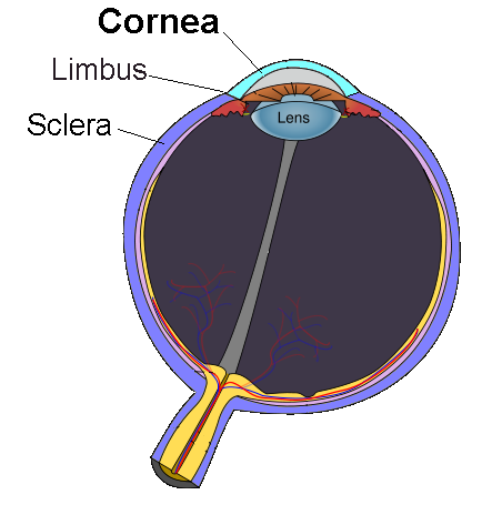 The cornea, as demarcated from the sclera by the corneal limbus.